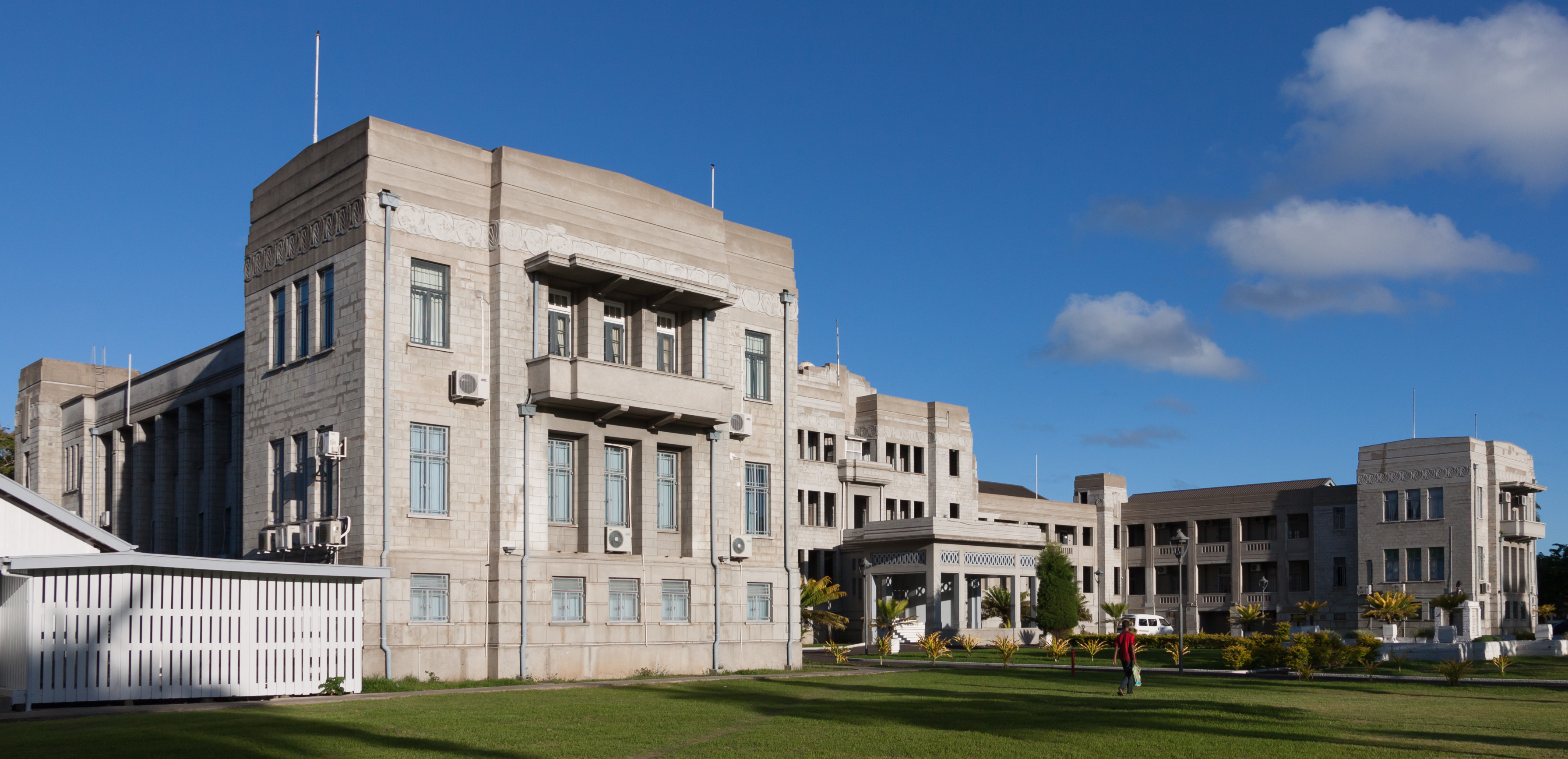 Gouvernment Building (Suva)